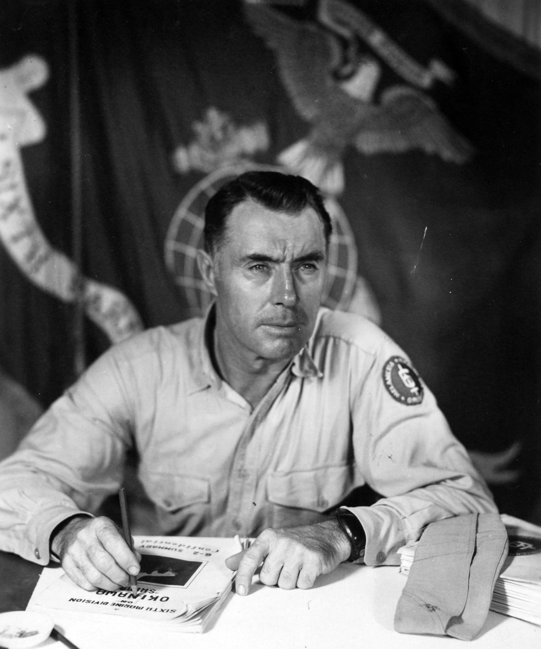 William John Whaling (February 26, 1894 – November 1989) was a highly decorated Officer of the United States Marine Corps with the rank of Major General, who was expert in the Jungle warfare during the Pacific War. He also participated as a sport shooter in the 1924 Summer Olympics, where he finished in 12th place in the 25 m rapid fire pistol competition.